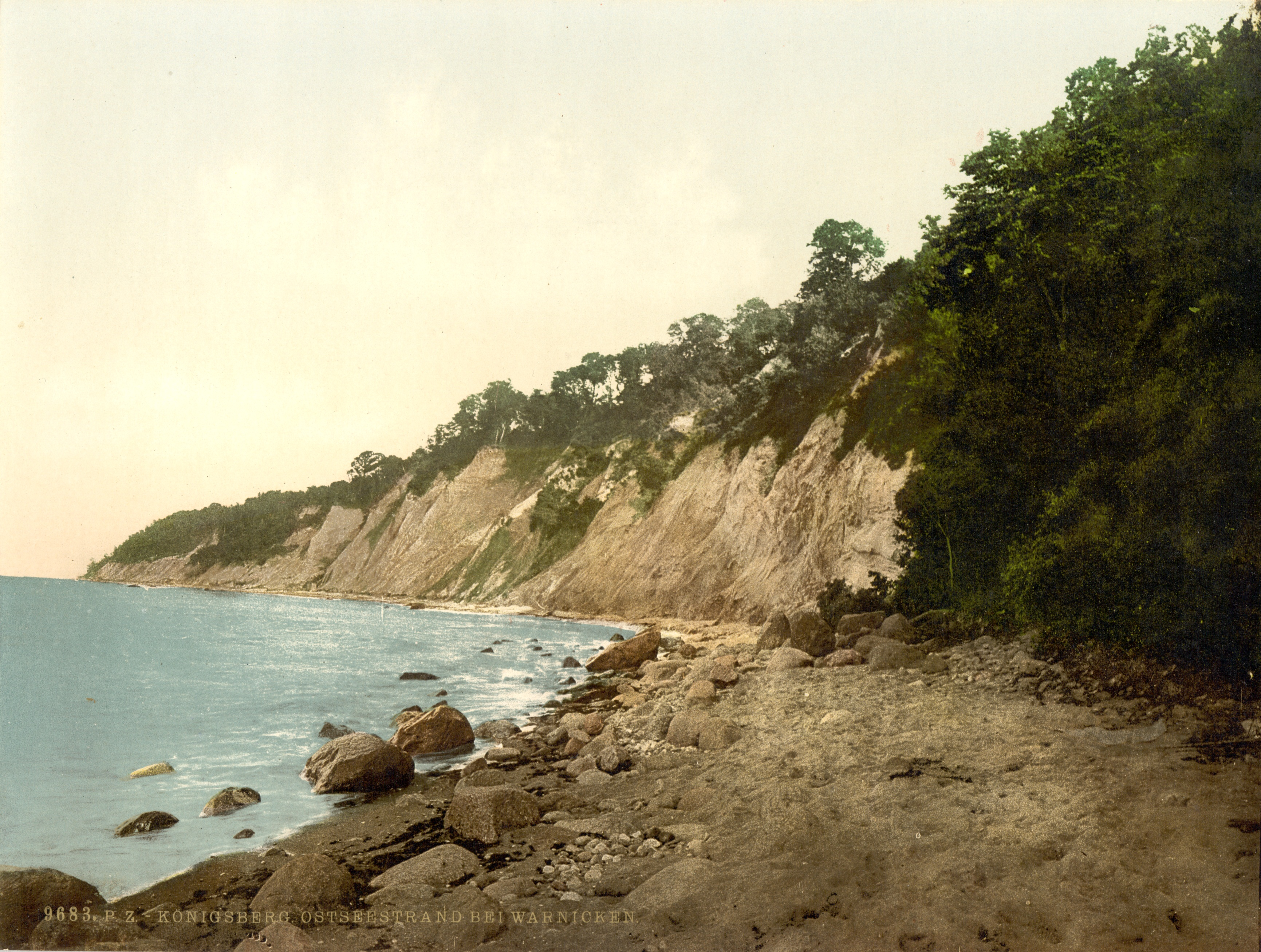 Baltic Sea coast near Warnicken, Konigsberg, East Prussia, Germany.